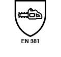 Logo norme EN 381